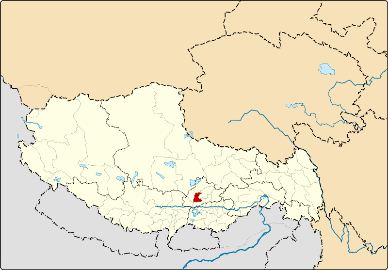 Doilungdêqên County, Tibet Autonomous Region.